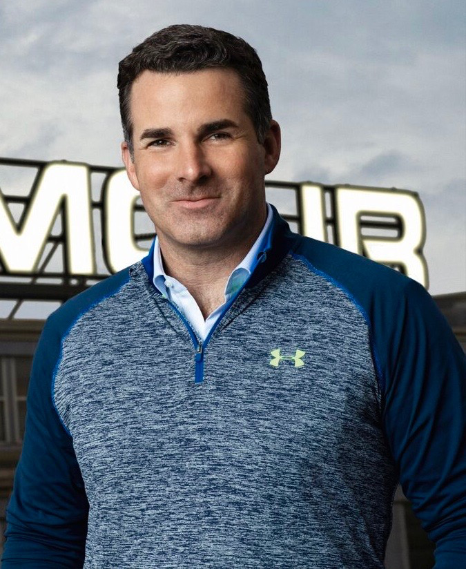 Headshot image of Under Armour CEO, Kevin Plank